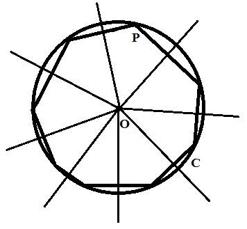 The circle circumscribed around the octagon